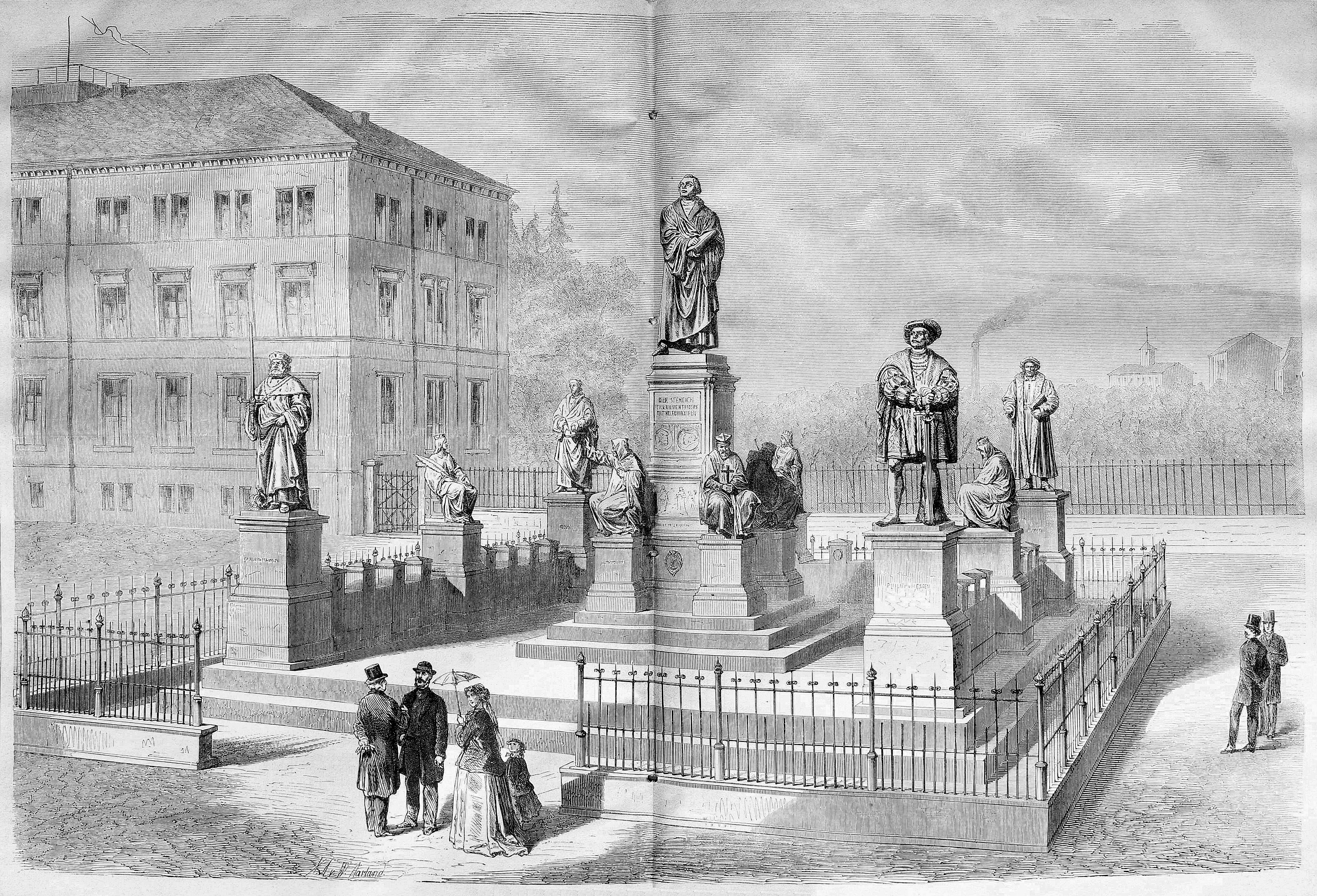 caption: "Das Lutherdenkmal in Worms. Enthüllt am 25. Juni 1868."